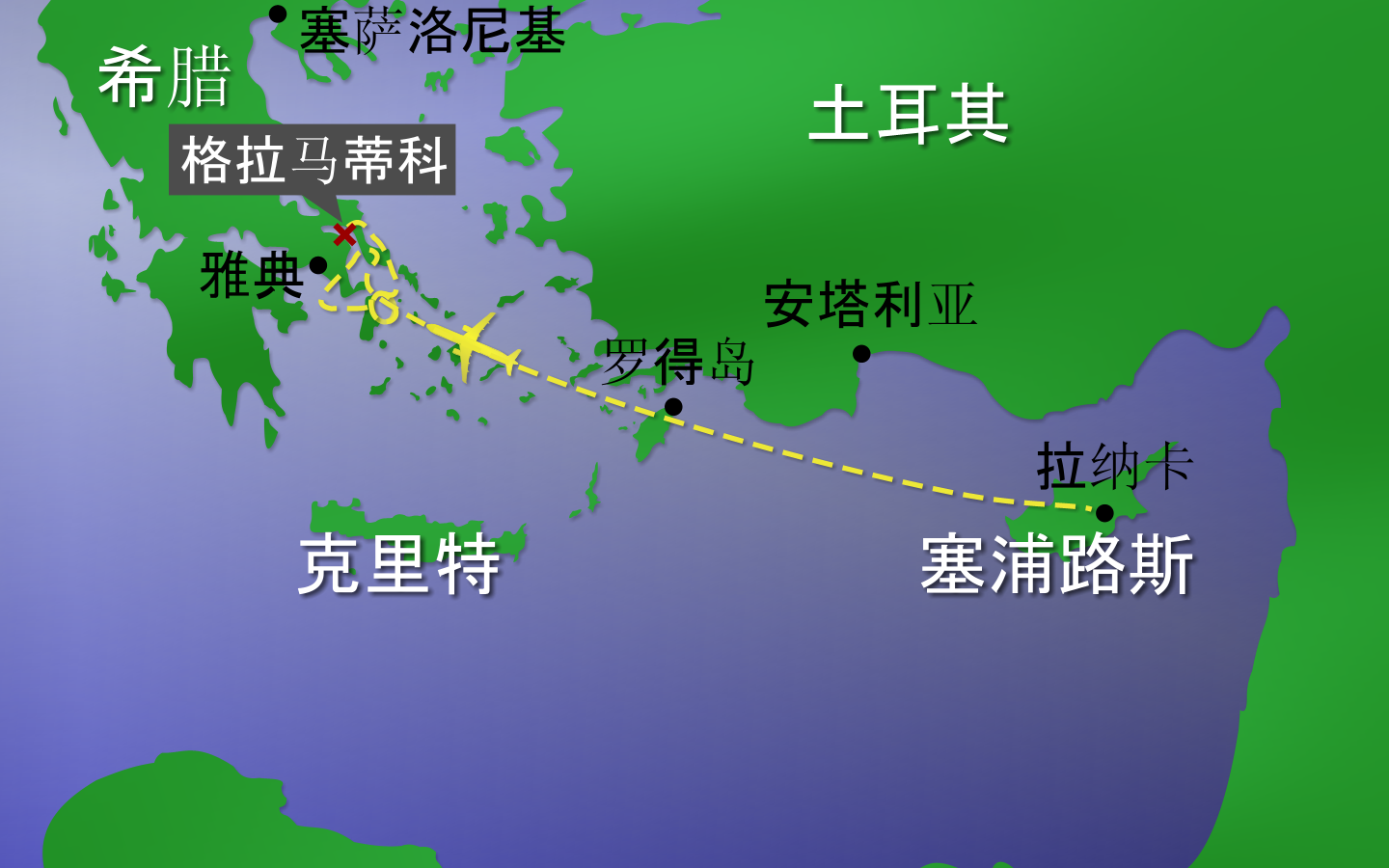 Map of Helios Airways Flight 522. Helios Airwyas Flight 522, crashed on August 14, 2005 near the community of Grammatiko in Greece. The map shows, how the flight proceeded. First, the autopilot controled the airplane in the direction of Athens airport. Then the airplane flew to the south and flew loops over the Ägais for about three hours. After that, the airplane flew in the direction of Athens airport again, until it crashed nearby Grammatiko.